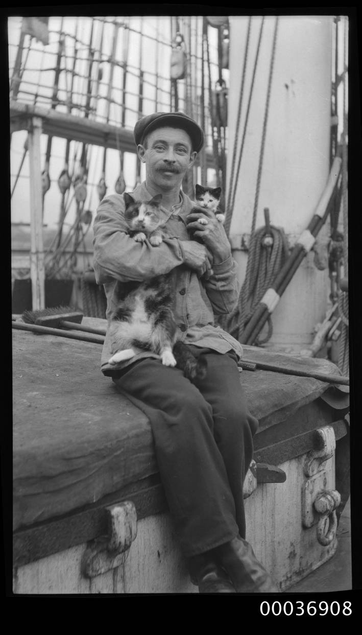 This photo is part of the Australian National Maritime Museum’s Samuel J. Hood Studio collection. Sam Hood (1872-1953) was a Sydney photographer with a passion for ships. His 60-year career spanned the romantic age of sail and two world wars. The photos in the collection were taken mainly in Sydney and Newcastle during the first half of the 20th century. The ANMM undertakes research and accepts public comments that enhance the information we hold about images in our collection. This record has been updated accordingly. Photographer: Samuel J. Hood Studio Collection Object no. 00036908